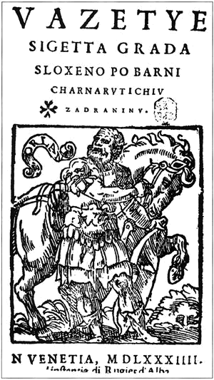 Cover of the first edition of "Vazetje Sigeta grada", written by Brne Karnarutić.